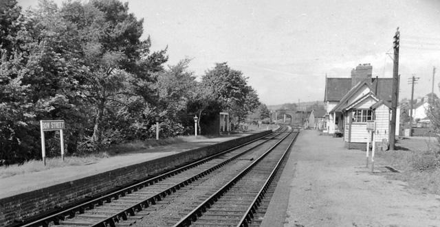 Bow Street Station. View northwards, towards Machynlleth; ex-Cambrian Rlys. Machynlleth - Aberystwyth main line. Station closed 14/6/65.